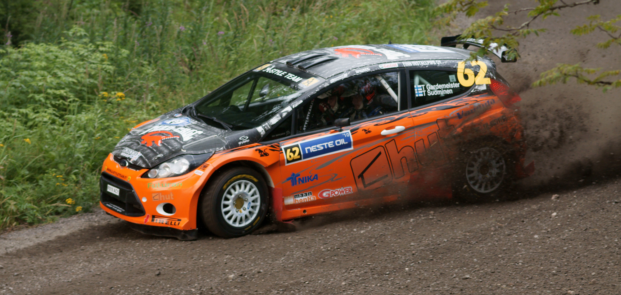 Toni Gardemeister driving at Laajavuori special stage, Rally Finland 2010.